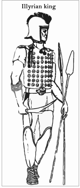 Illyrian king wielding a sica,two javelins or short spears,Greek greaves and a breastplate with studs,a metal belt,arm bracelets and an "Illyrian" type Greek helmet.This appearance would early as this type of helmet had been adandoned in Illyria by the 4th century BC. Own work,data from Iliri by Aleksander Stipevic,ISBN-86-03-99106-5,page 137